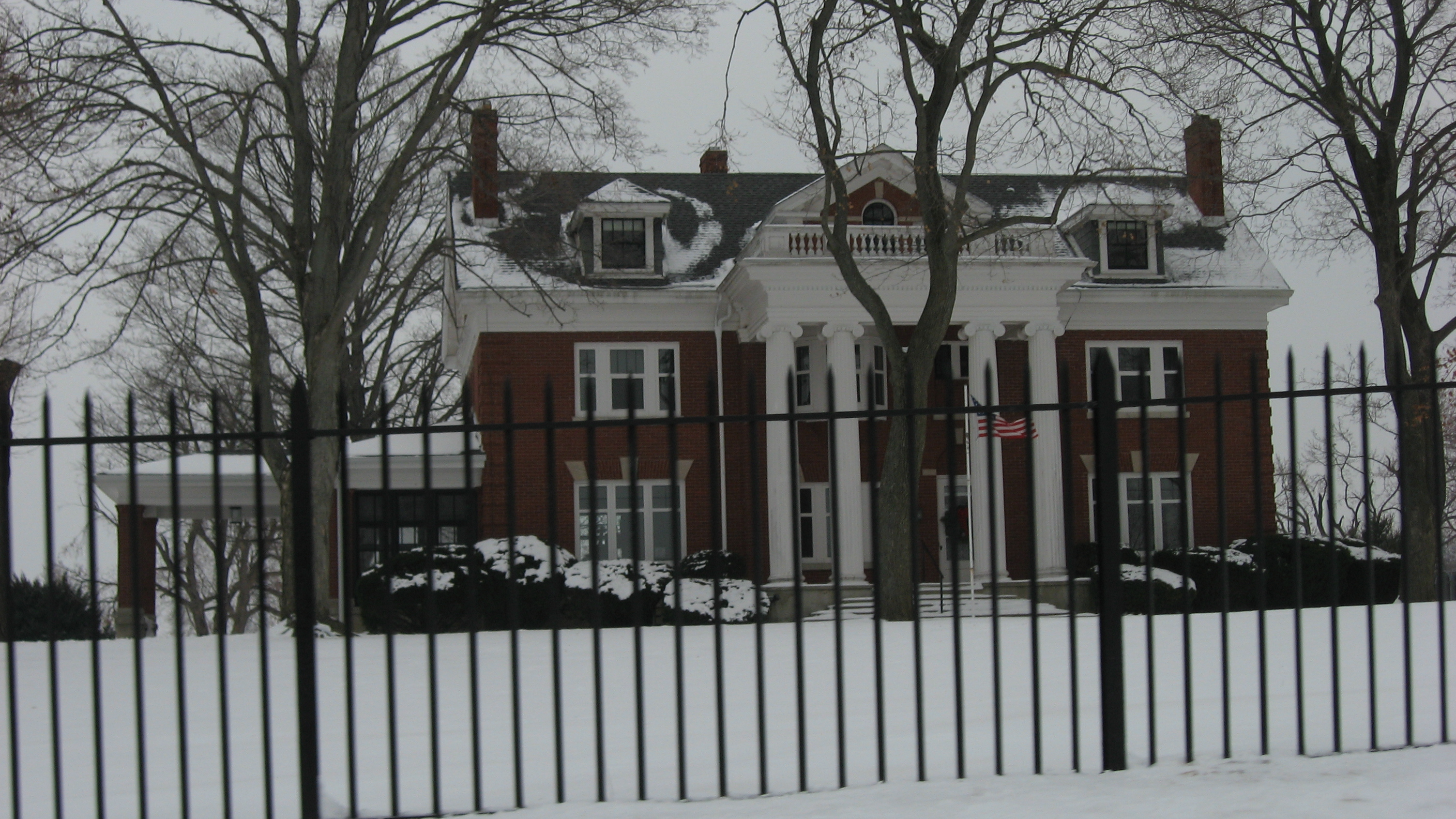 Farmhouse at the Westleigh Farms, located at 2107 S. Frances Slocum Trail southeast of Peru in Butler Township, Miami County, Indiana, United States. Built in 1913, it is listed on the National Register of Historic Places.